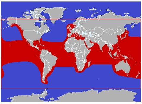 Geographical range of P. crassidens